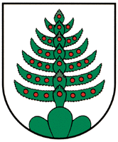 Coat of arms of Unteriberg, Canton Schwyz, Switzerland